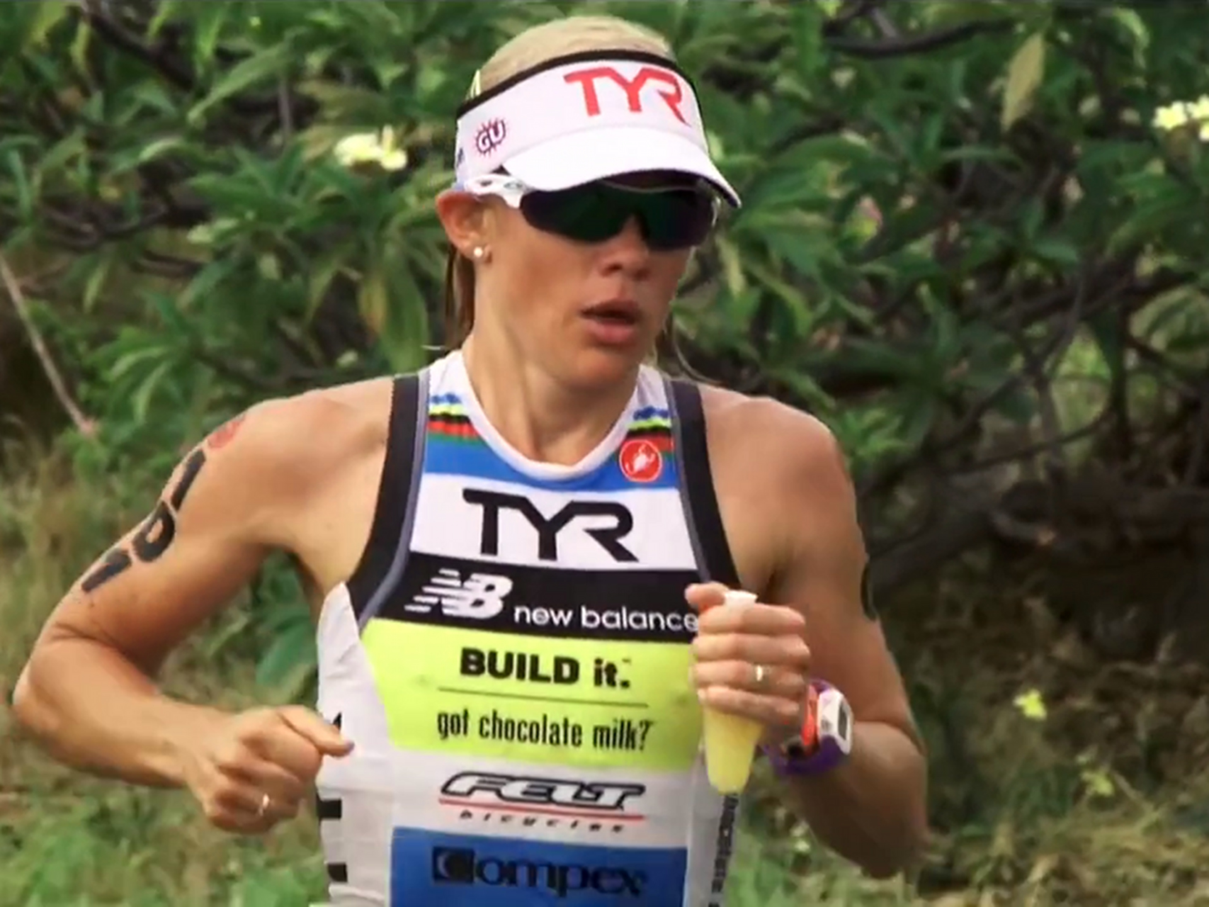 Mirinda Carfrae at 2014 Ironman Hawaii